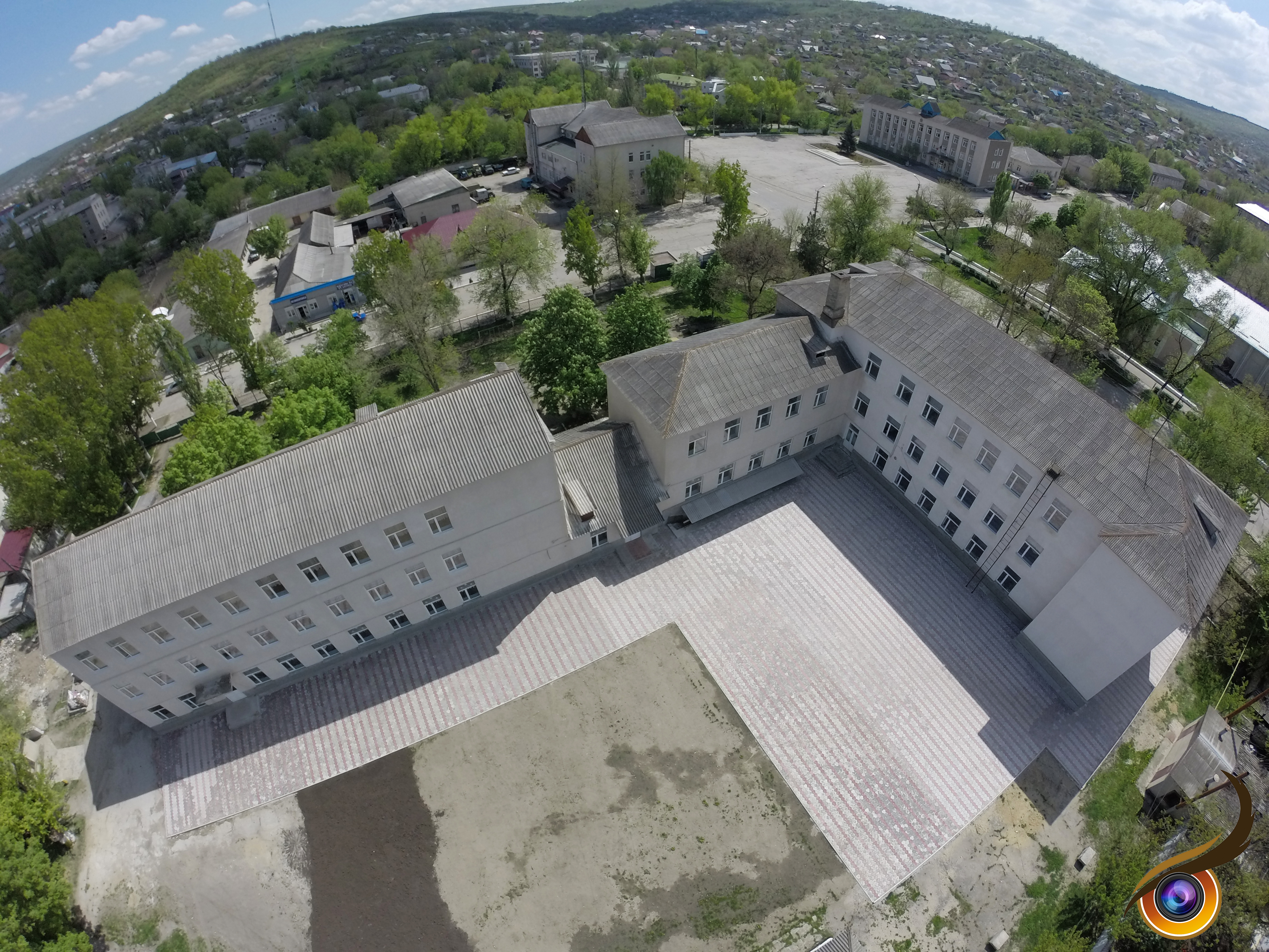 Liceul teoretic Mihai Eminesc